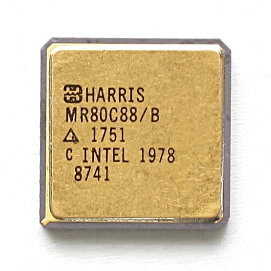 CPU Harris MR80C88 (MilSpec)